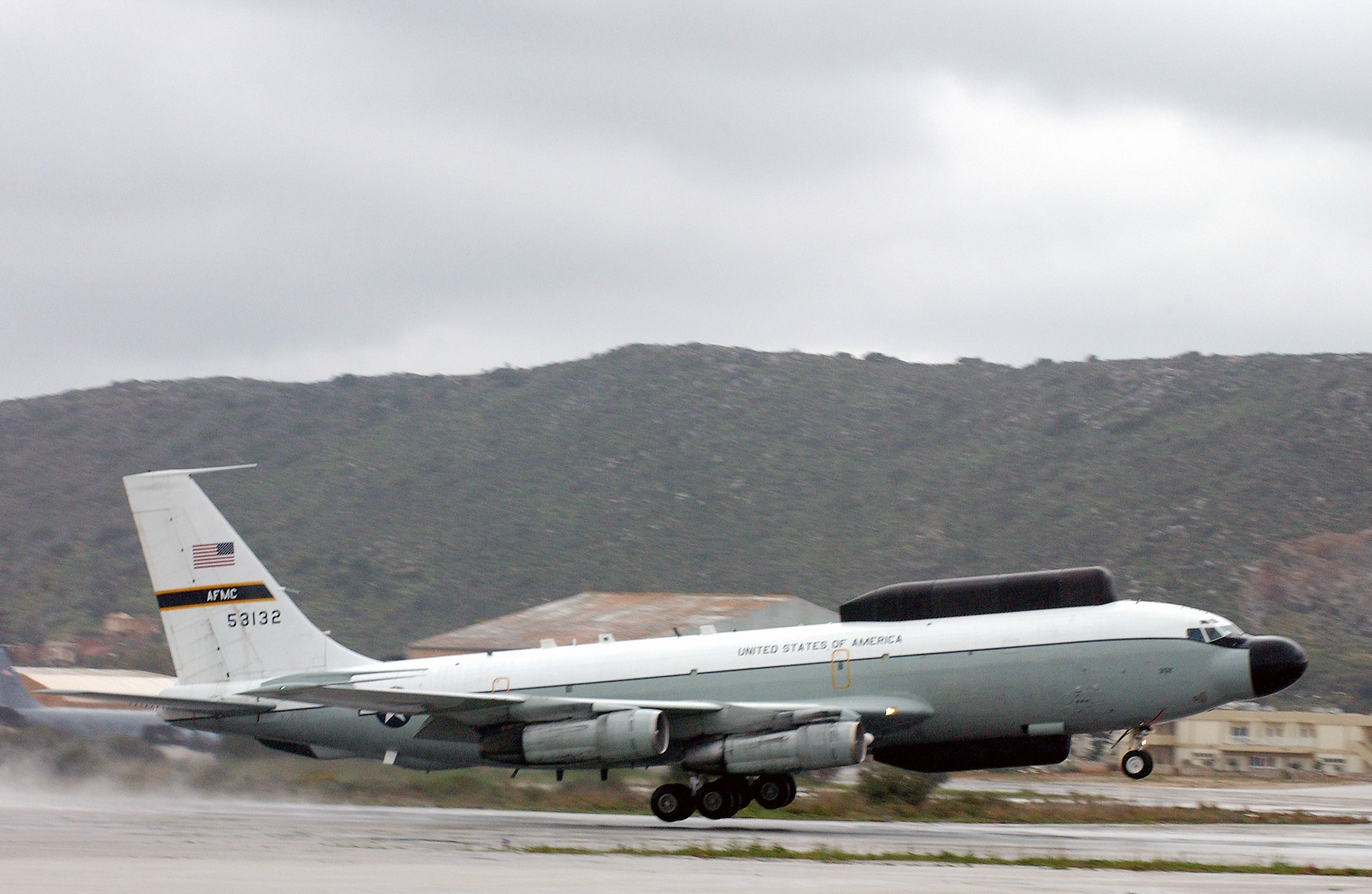 A US Air Force (USAF) NKC-135 "Big Crow" Multi-Service Electronic Countermeasures (ECM) aircraft takes off from a forward-deployed operating base, while a KC-135R Stratotanker refueling aircraft tops off its fuel tanks, in support of Operation IRAQI FREEDOM.